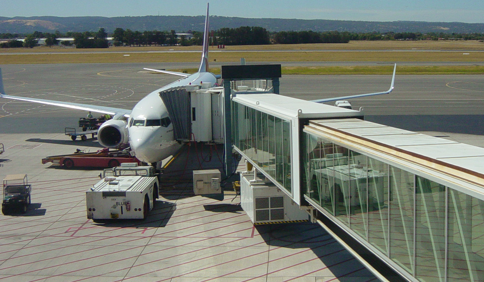 Jet bridge and aircraft 737-900